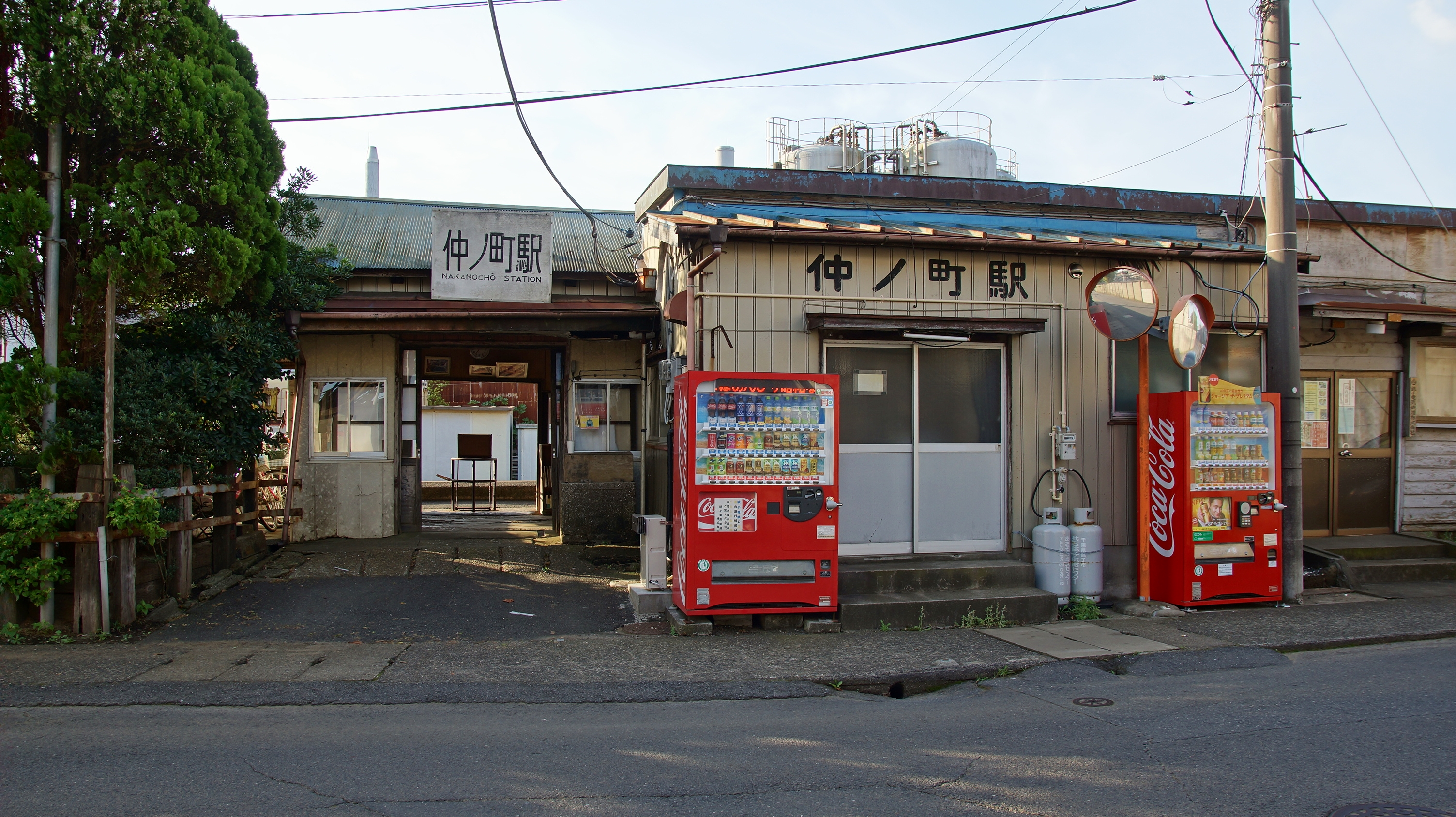 The entrance to Nakanocho Station on the Choshi Electric Railway Line